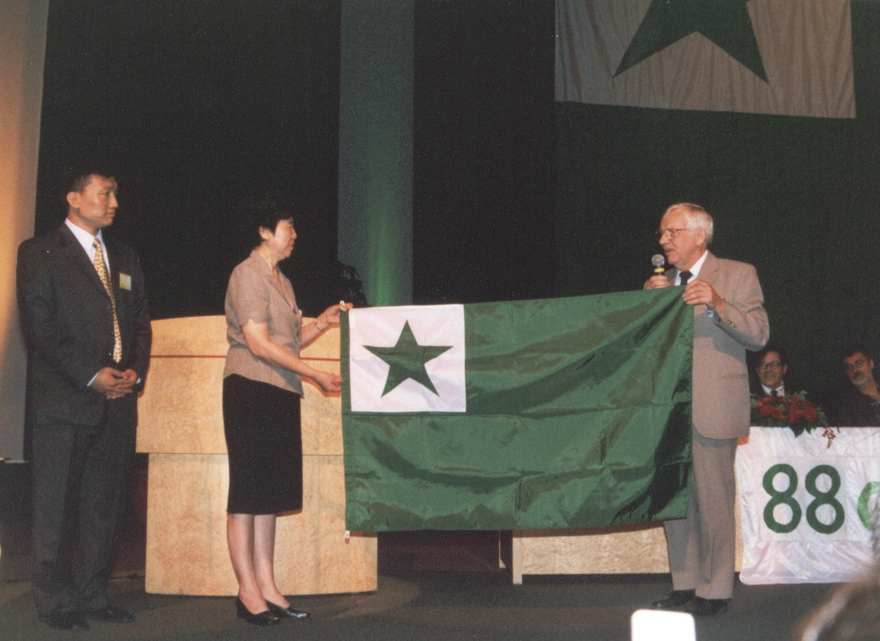 Traditional passing of Esperanto flag at World Esperanto Congress, Göteborg (Sweden), 2003; left the Chinese delegation (Congress 2004), right Roland Lindblom from the Swedish congress comittee